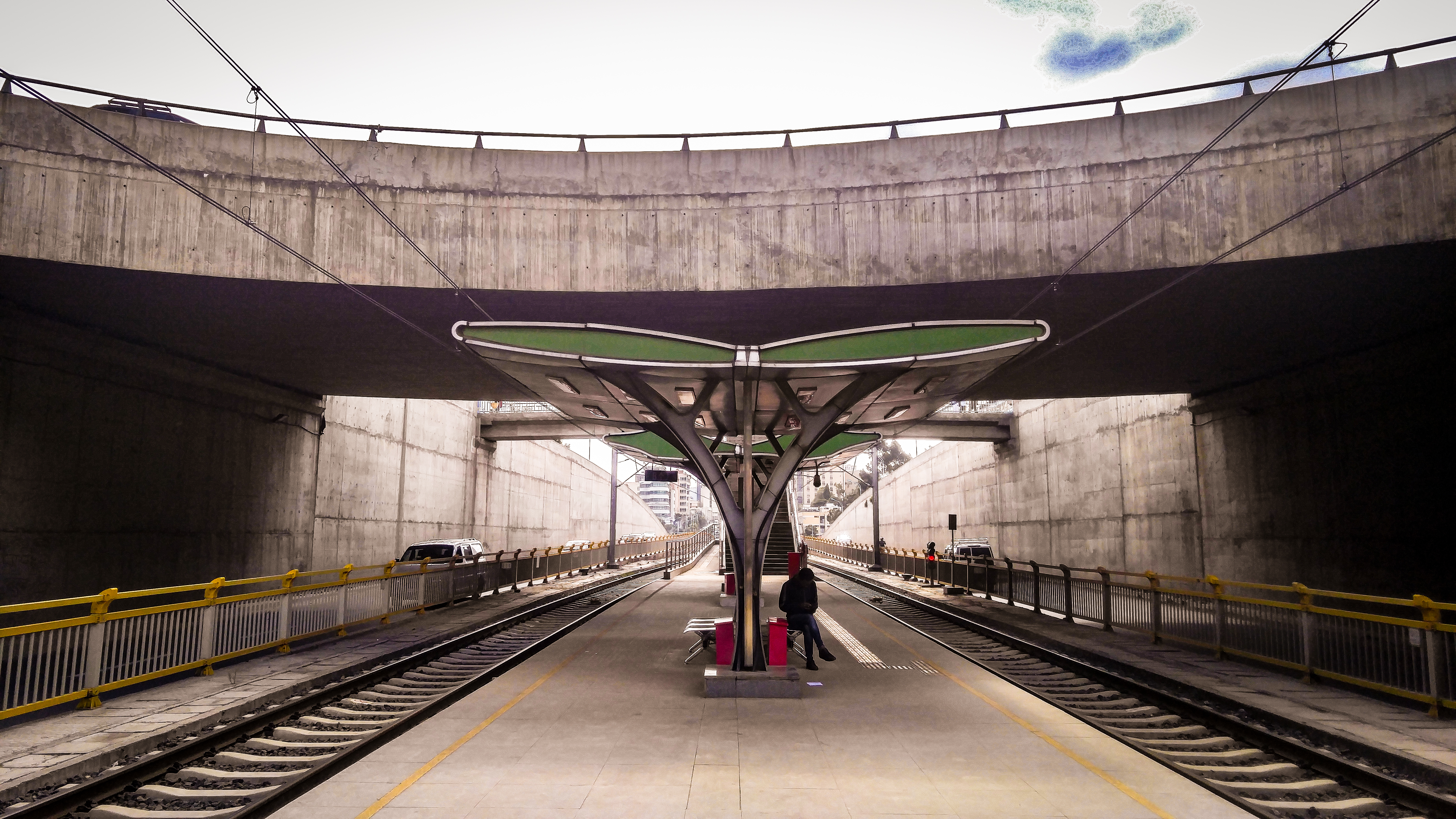 This is an image with the theme "Africa on the Move or Transport" from: Ethiopia